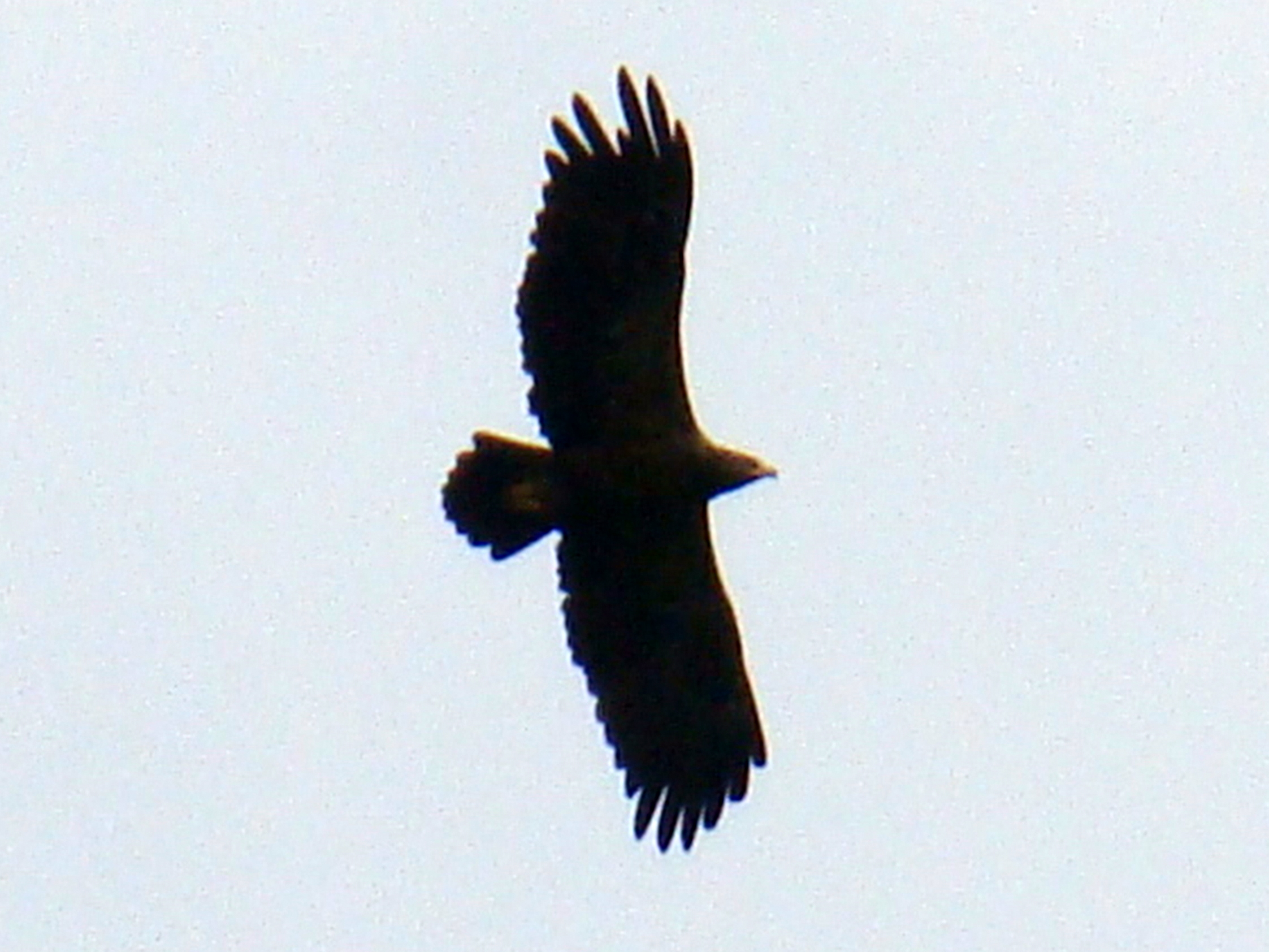 Aquila pomarina, orlik krzykliwy, Sanok, Góry Słonne